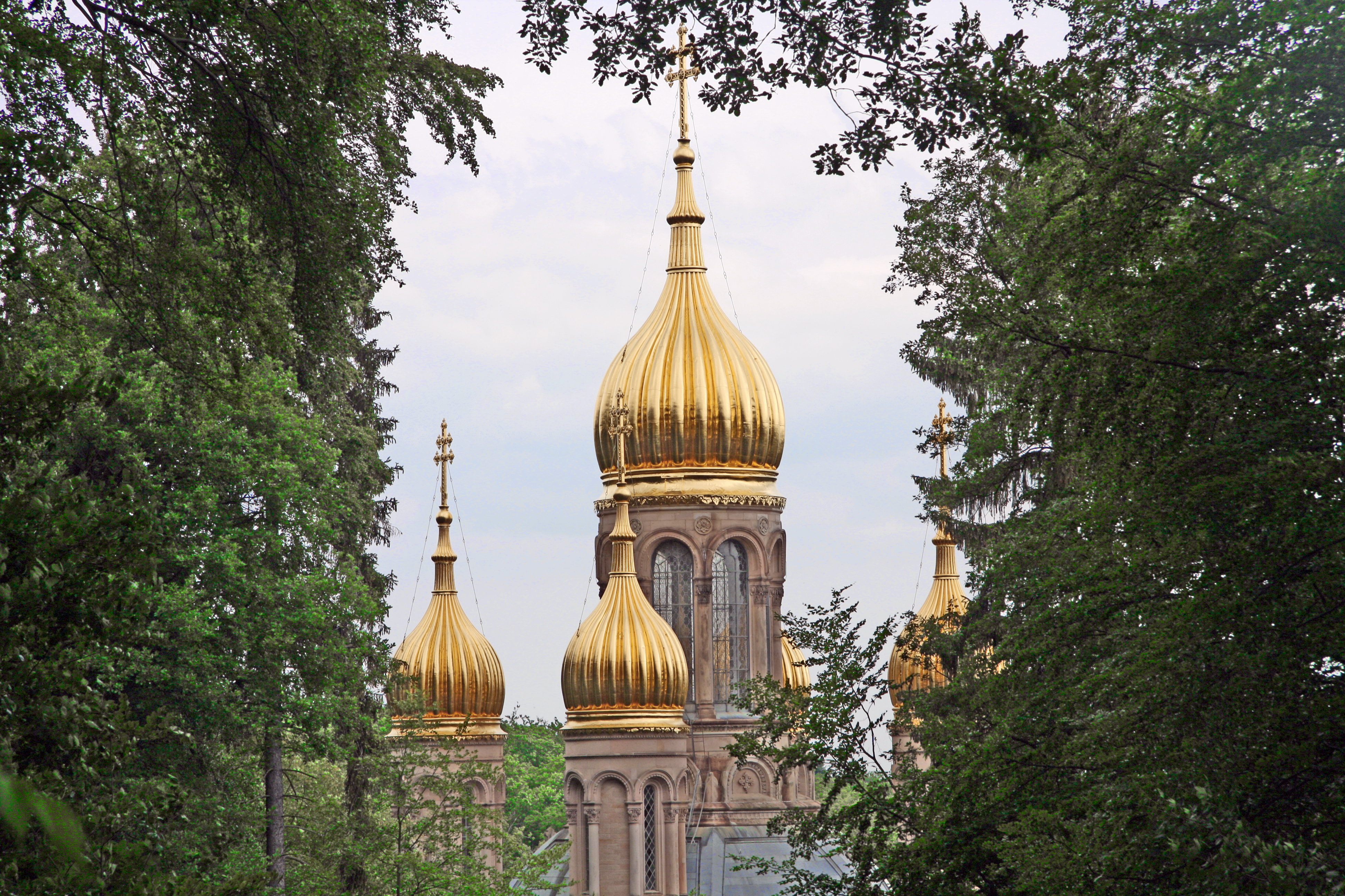 St. Elizabeth's Church in Wiesbaden after completion of the restauration